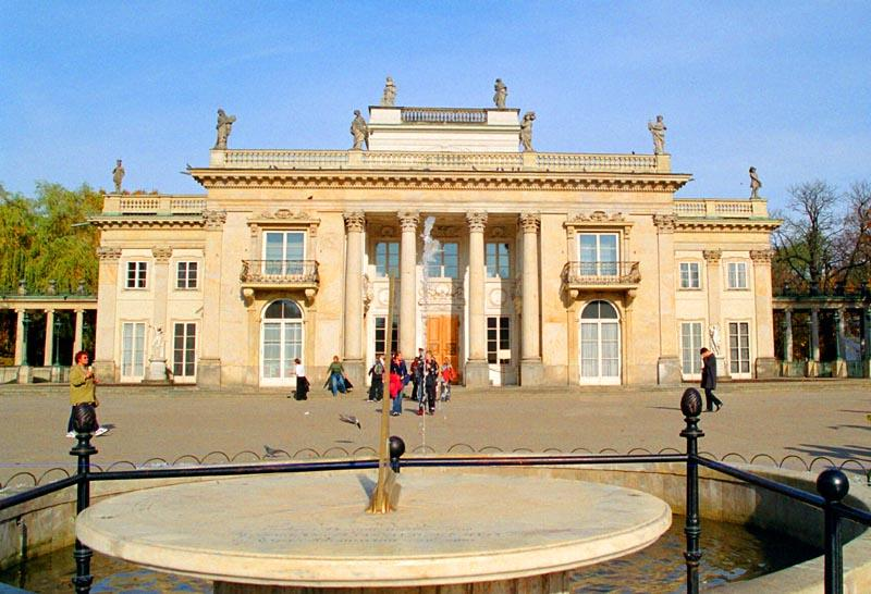 Palac na Wodzie in Warsaw with the permission of the authers Marek and Ewa Wojciechowscy [1]